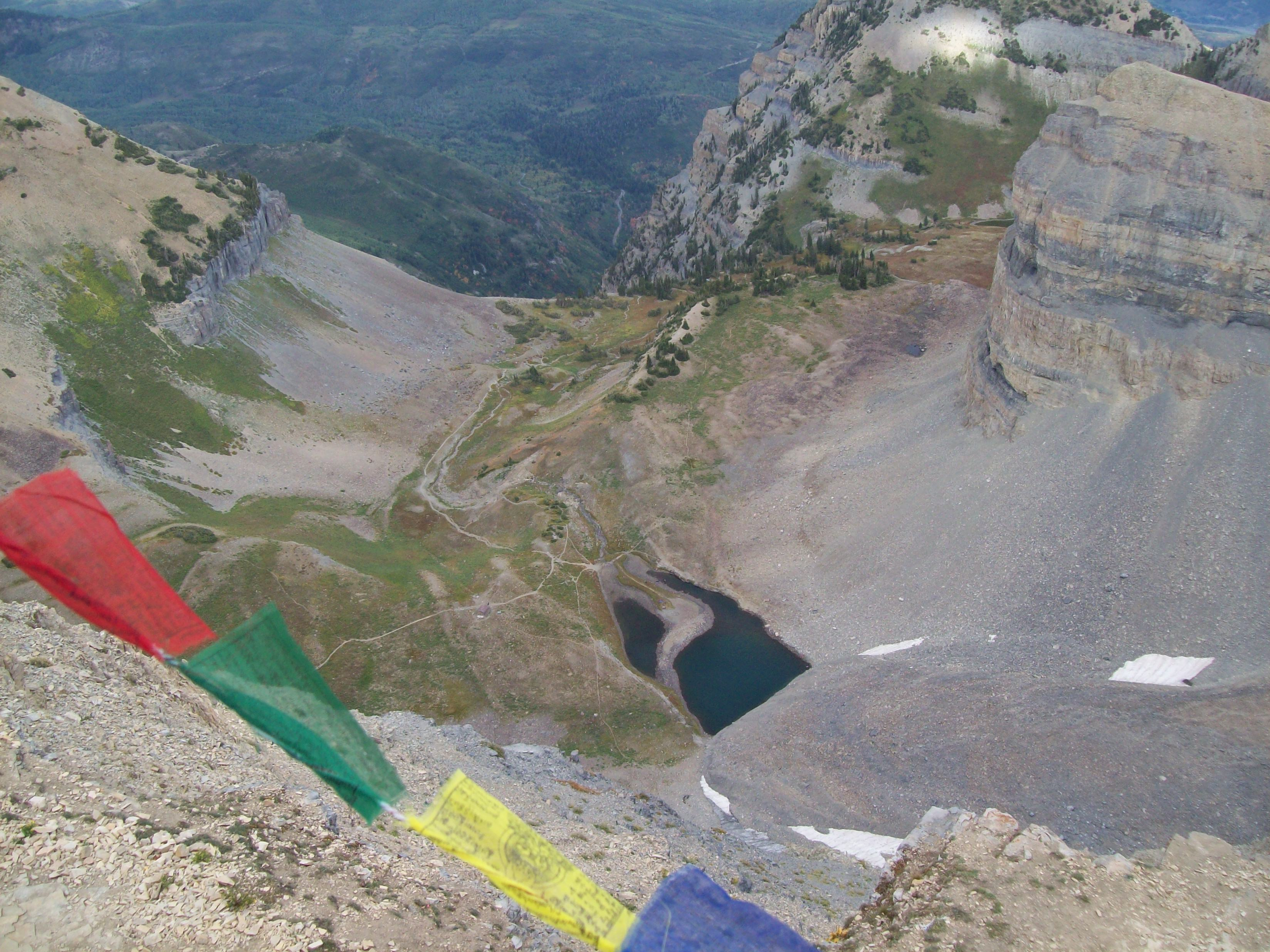 A view looking almost straight down on Emerald Lake from the Mount Timpanogos Peak